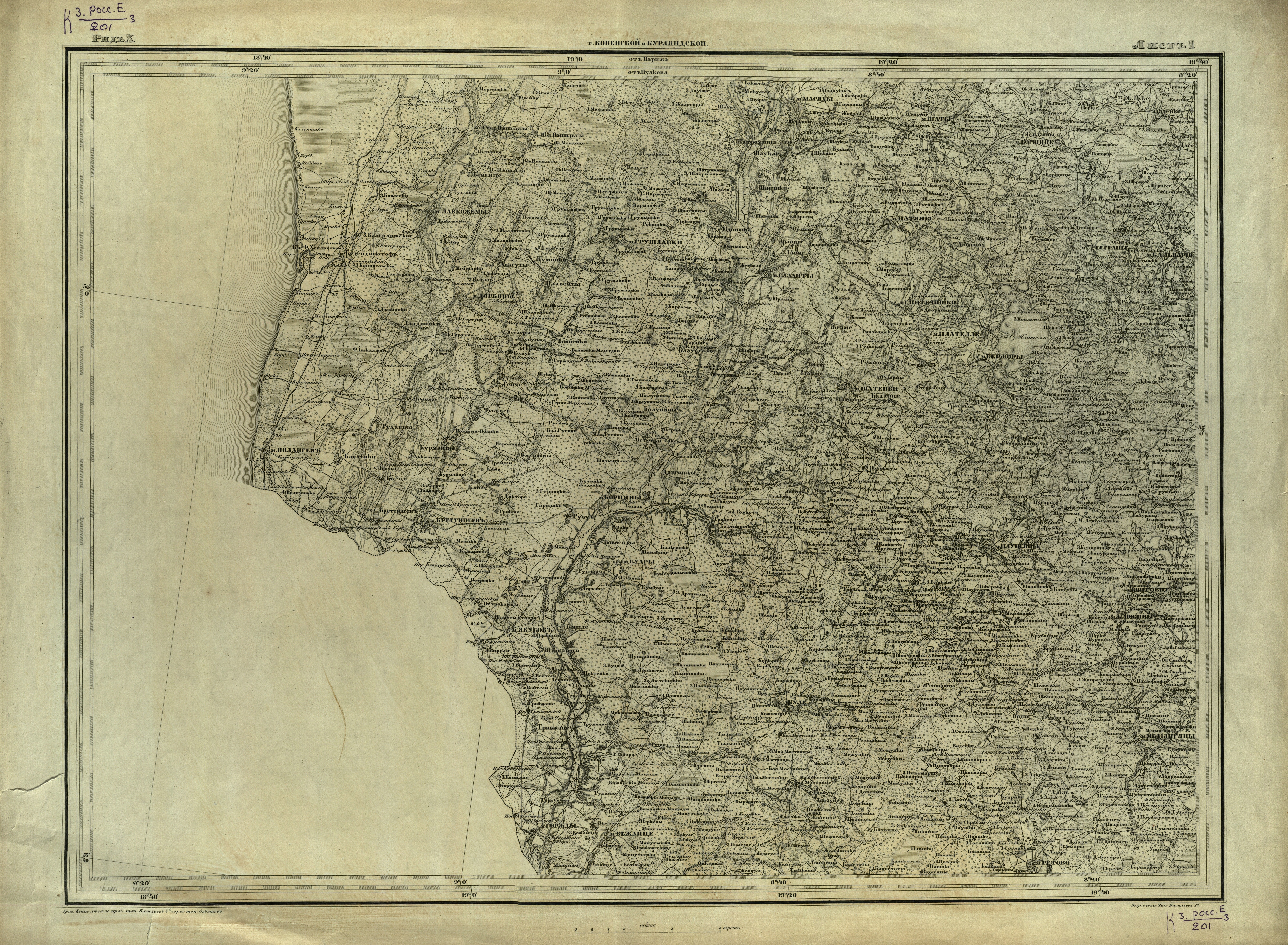 "Shubert's map". Fragment of topographic map of Russian Empire. 3 versta in inch (1260 m in 1 cm).